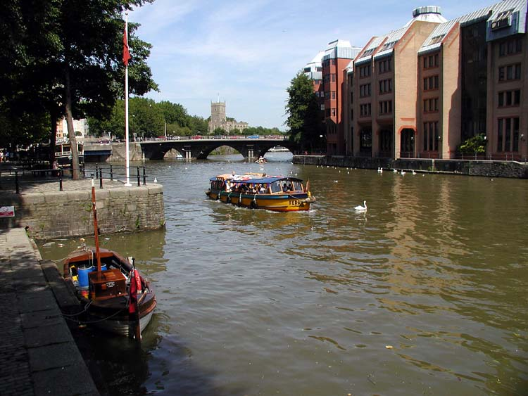 View of Bristol Bridge across the harbour from Welsh Back. Photographed by Adrian Pingstone in March 2003 and released to the public domain.